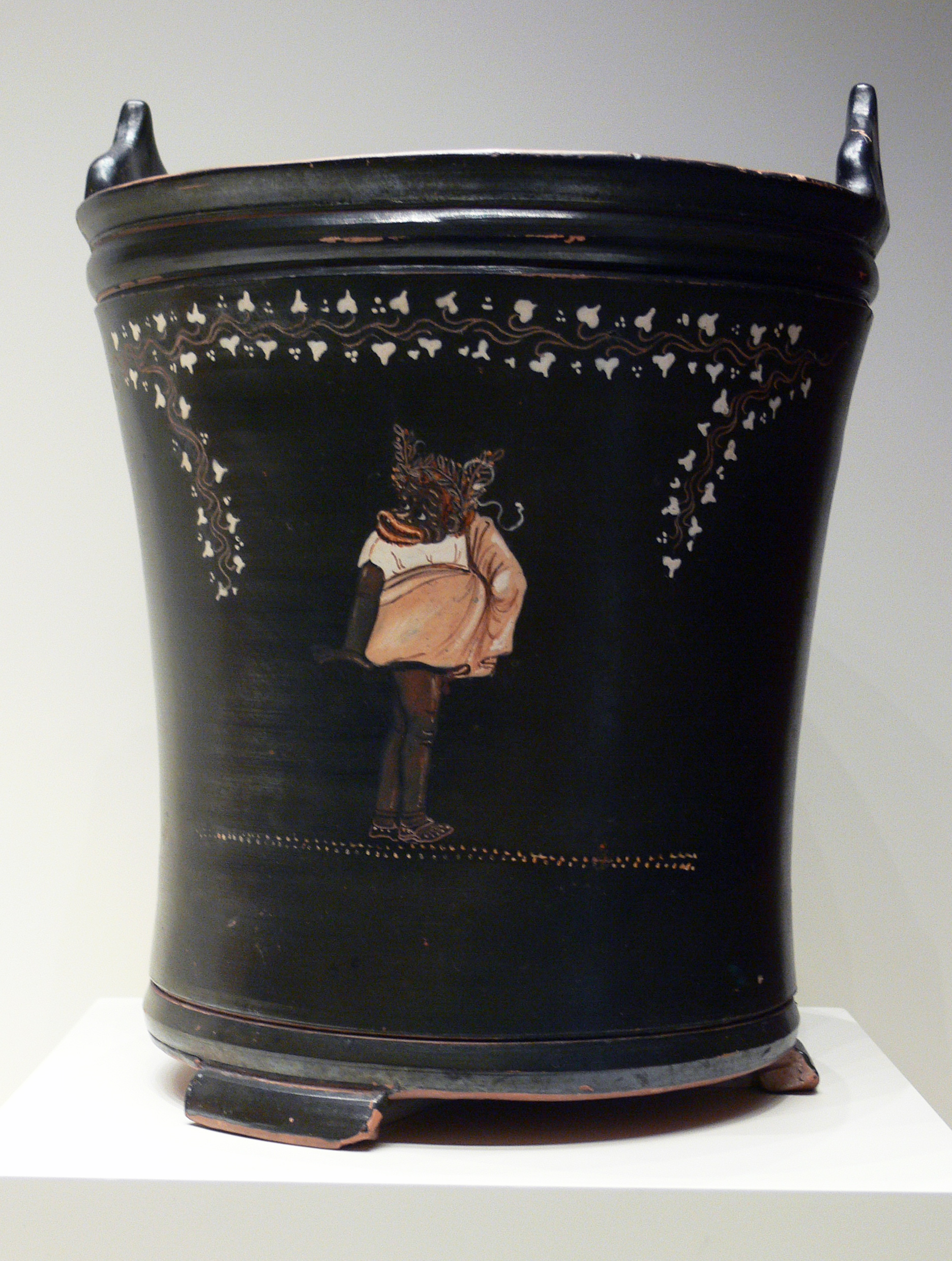 Comic with a comic actor